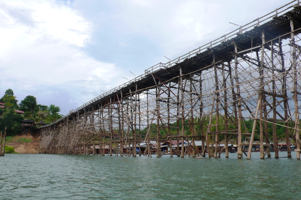 Mon Bridge in Sangkhlaburi, Kanchanaburi Province, Thailand.